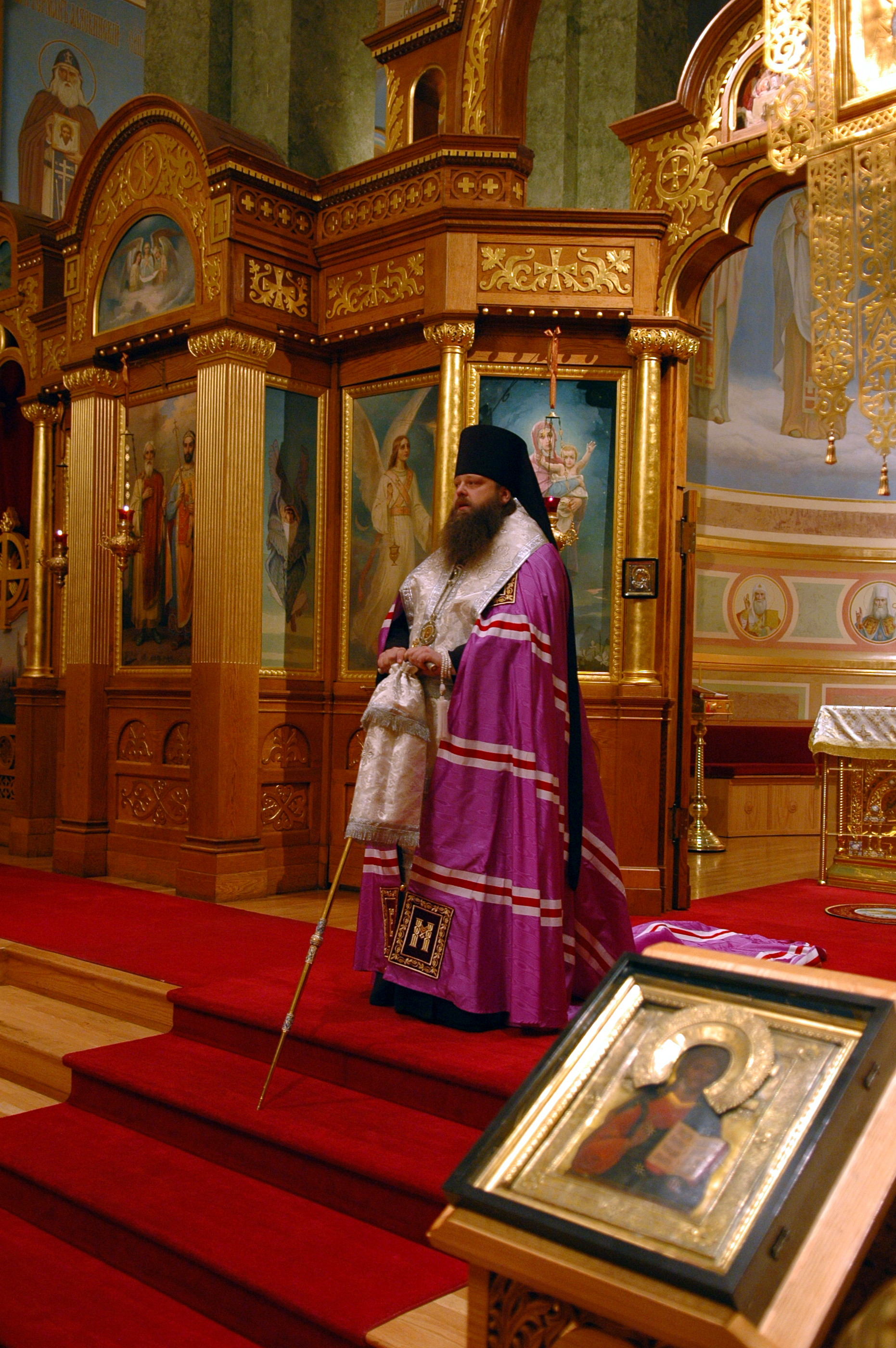 Bishop Mercurius of Zaraisk, administrator of the Patriarchal Parishes in the United States, rector of Saint Nicholas Russian Orthodox Cathedral (New York) in 2000-2009